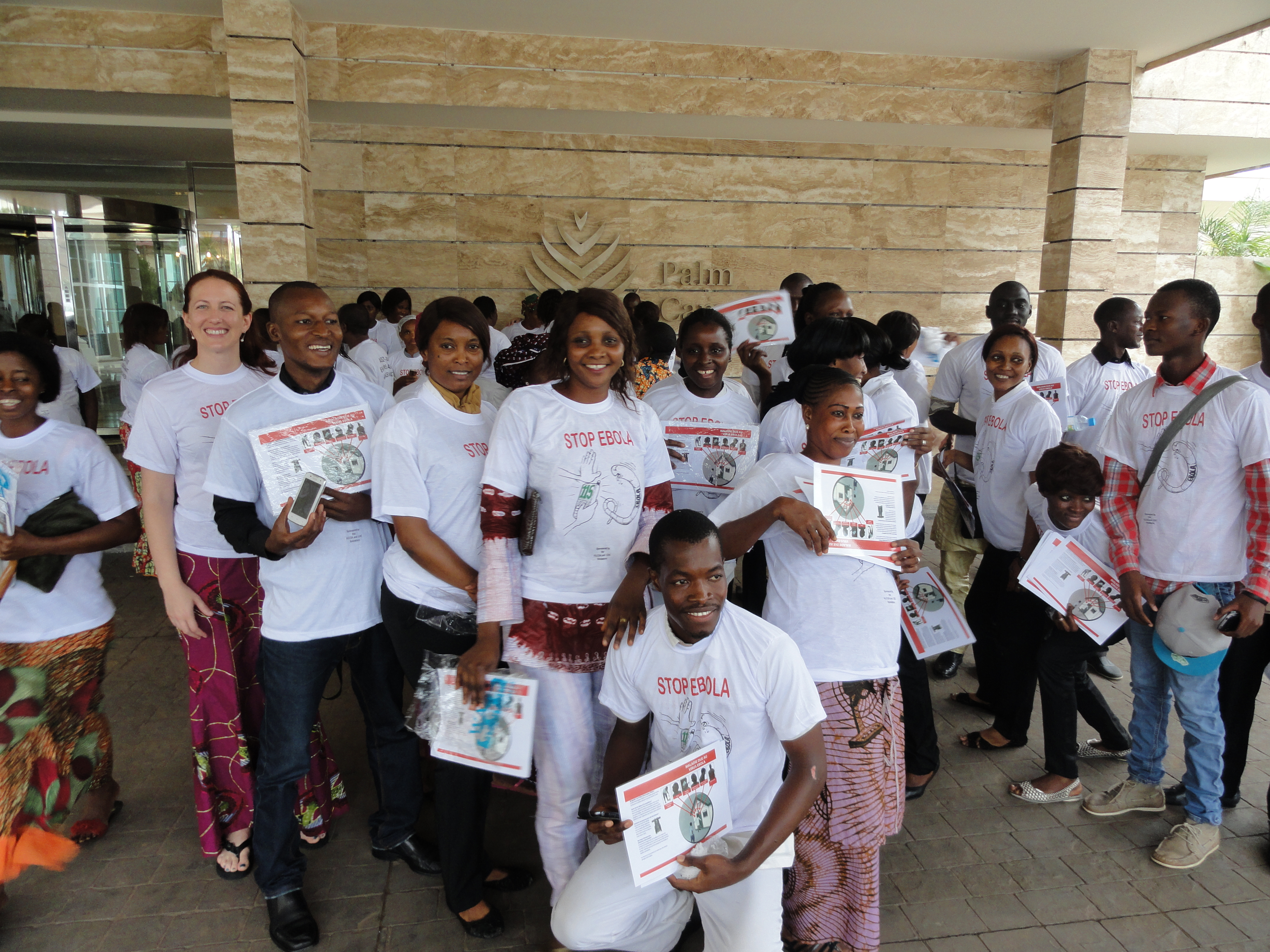 Hotel employees in Conakry, Guinea after a training on Ebola. For more information on Ebola and what CDC is doing, please visit